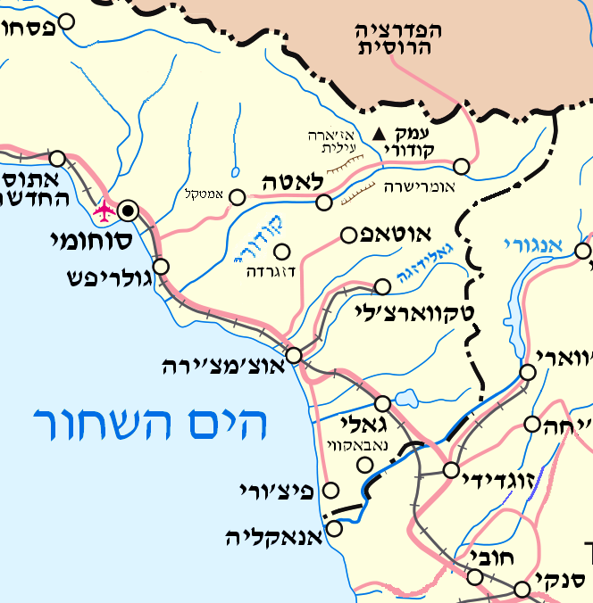 Map of Abkhazia, Gali district (heb)